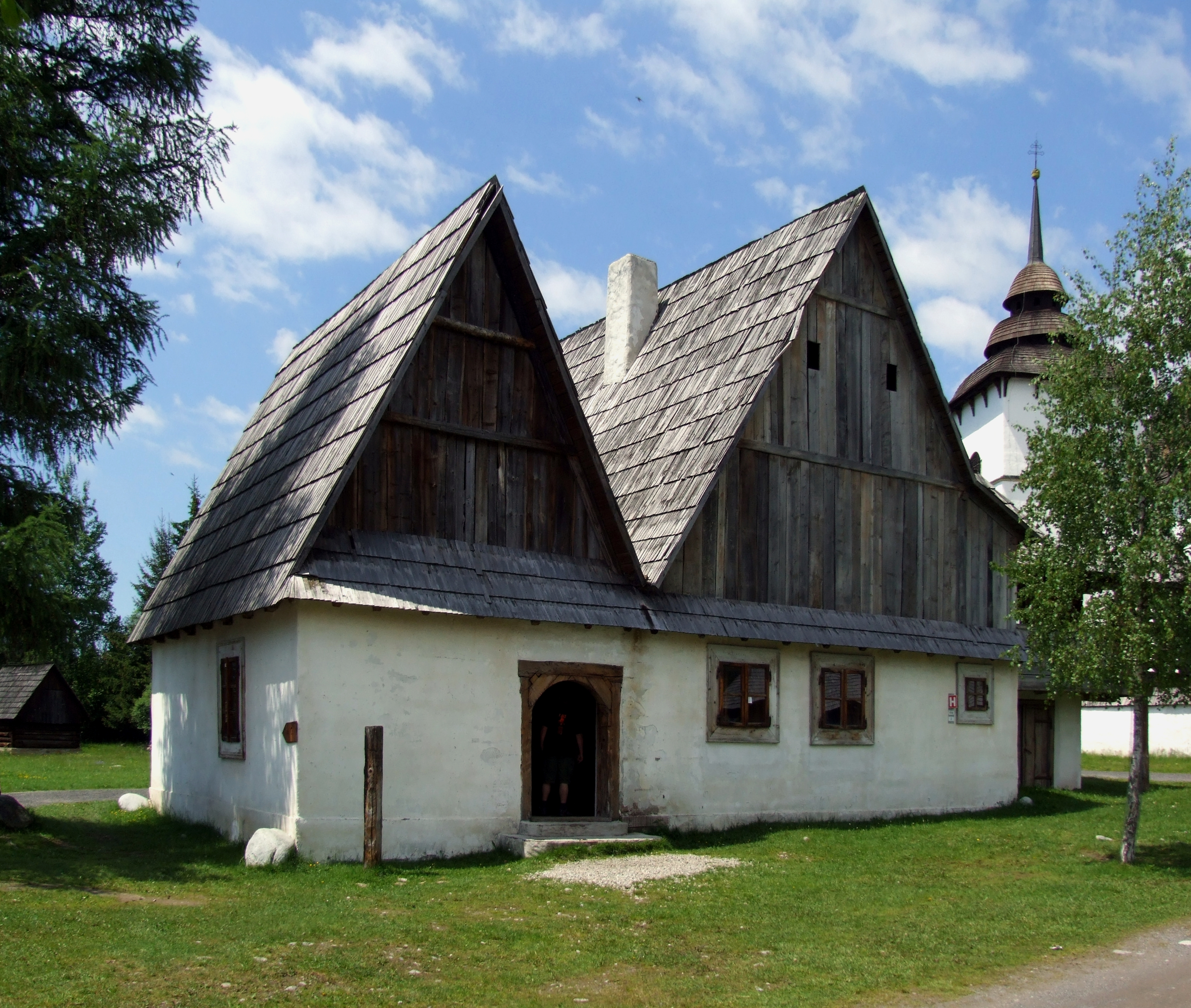 Museum of the Liptov village in Pribylina - inn from Čachtické Podhradie